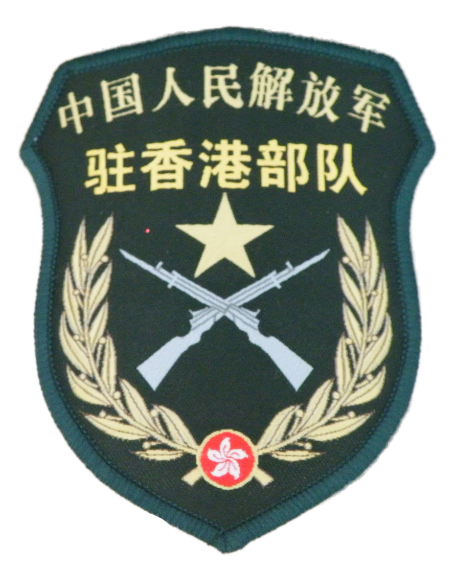 Type 07 uniform's arm badge for People's Liberation Army Hong Kong Garrison Ground Force